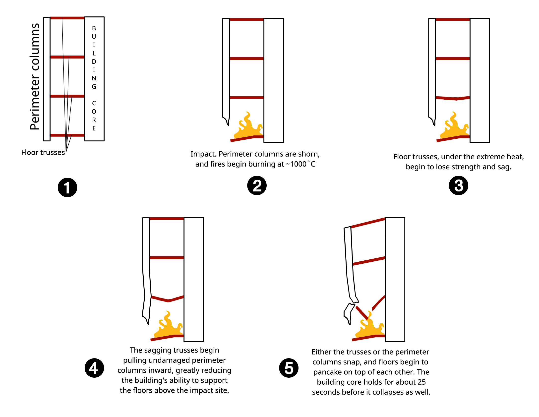 Simple diagram of the collapse of WTC Tower 1.